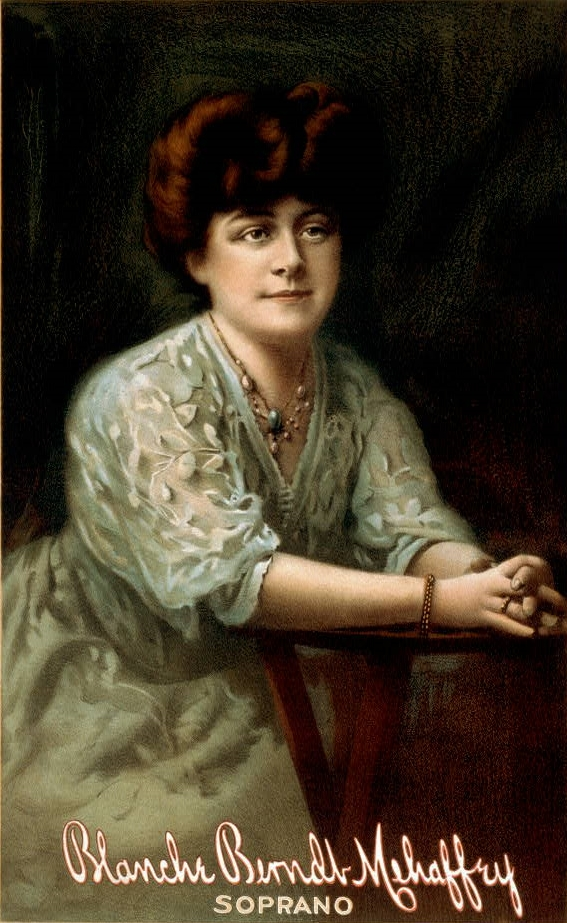 Blanche Berndt Mehaffey, mother of American actress Blanche Mehaffey (1908–1968). Theatre poster, color lithograph, 56 x 36 cm.